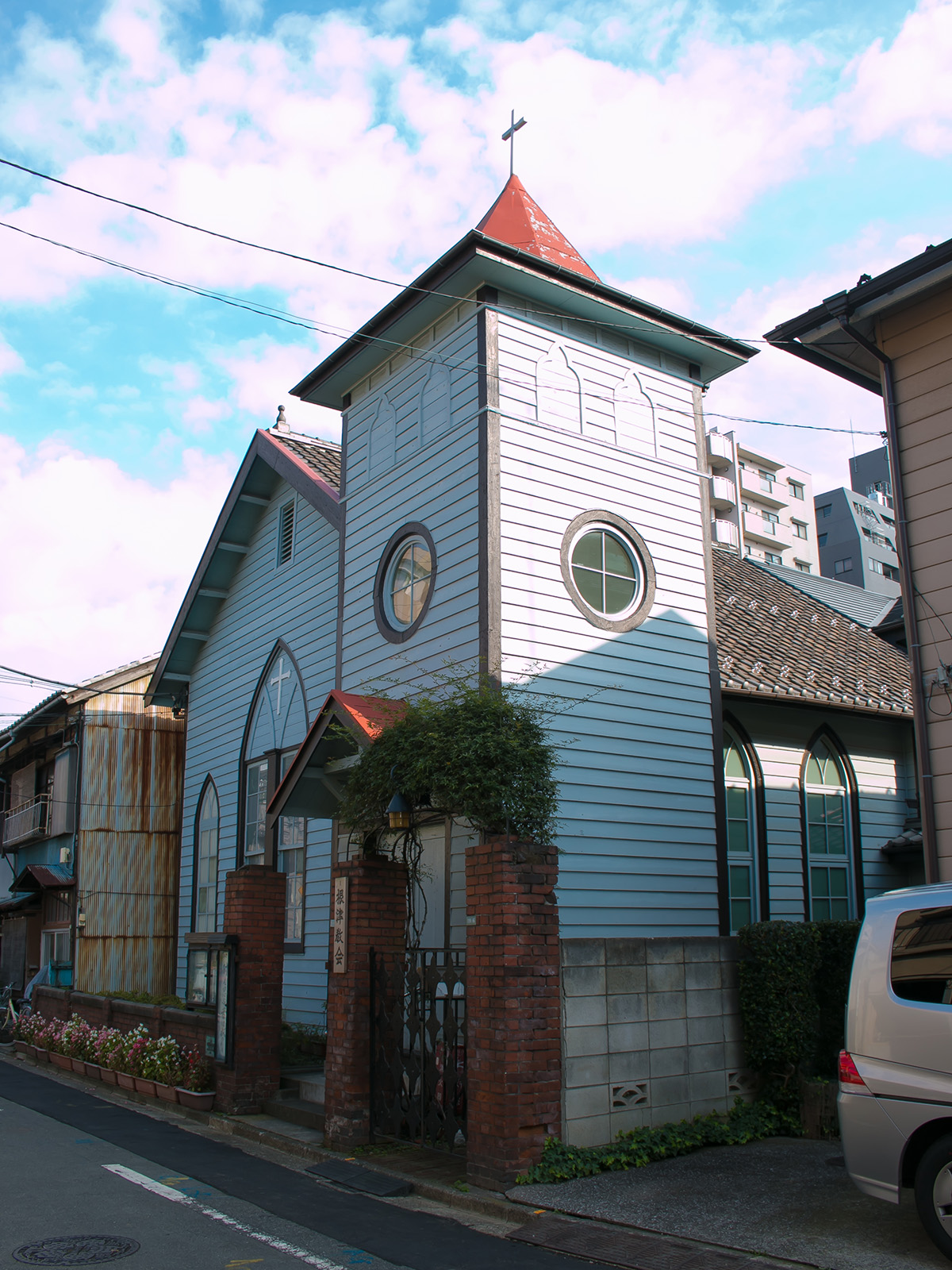 Nezu Church, Bunkyo, Tokyo.